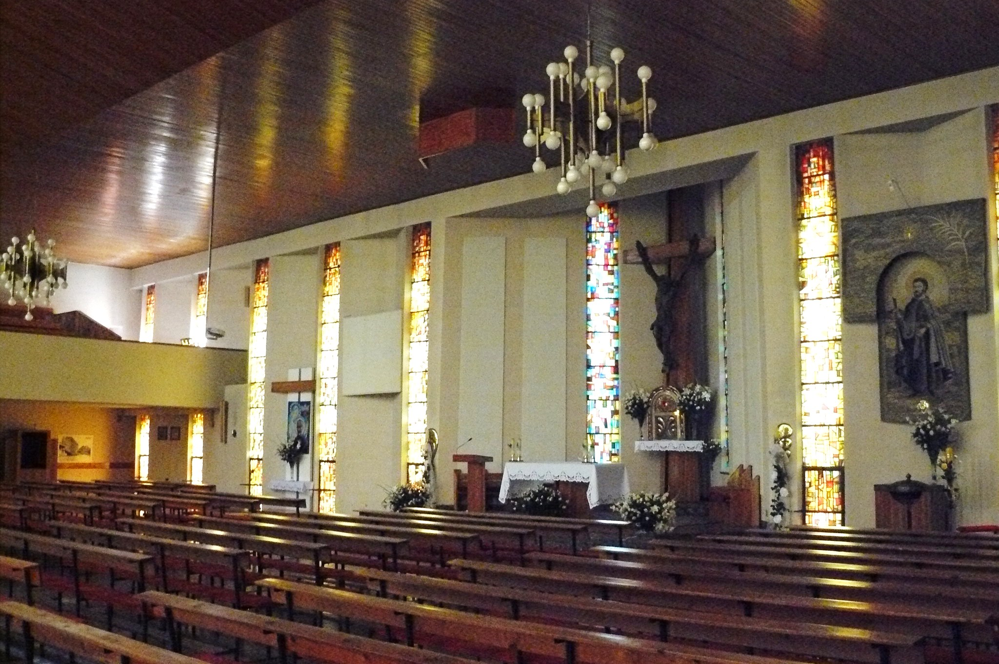 Poznan - Junikowo, Church.